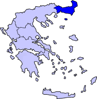 Map of the Greek geographical region of Thrace within Greece